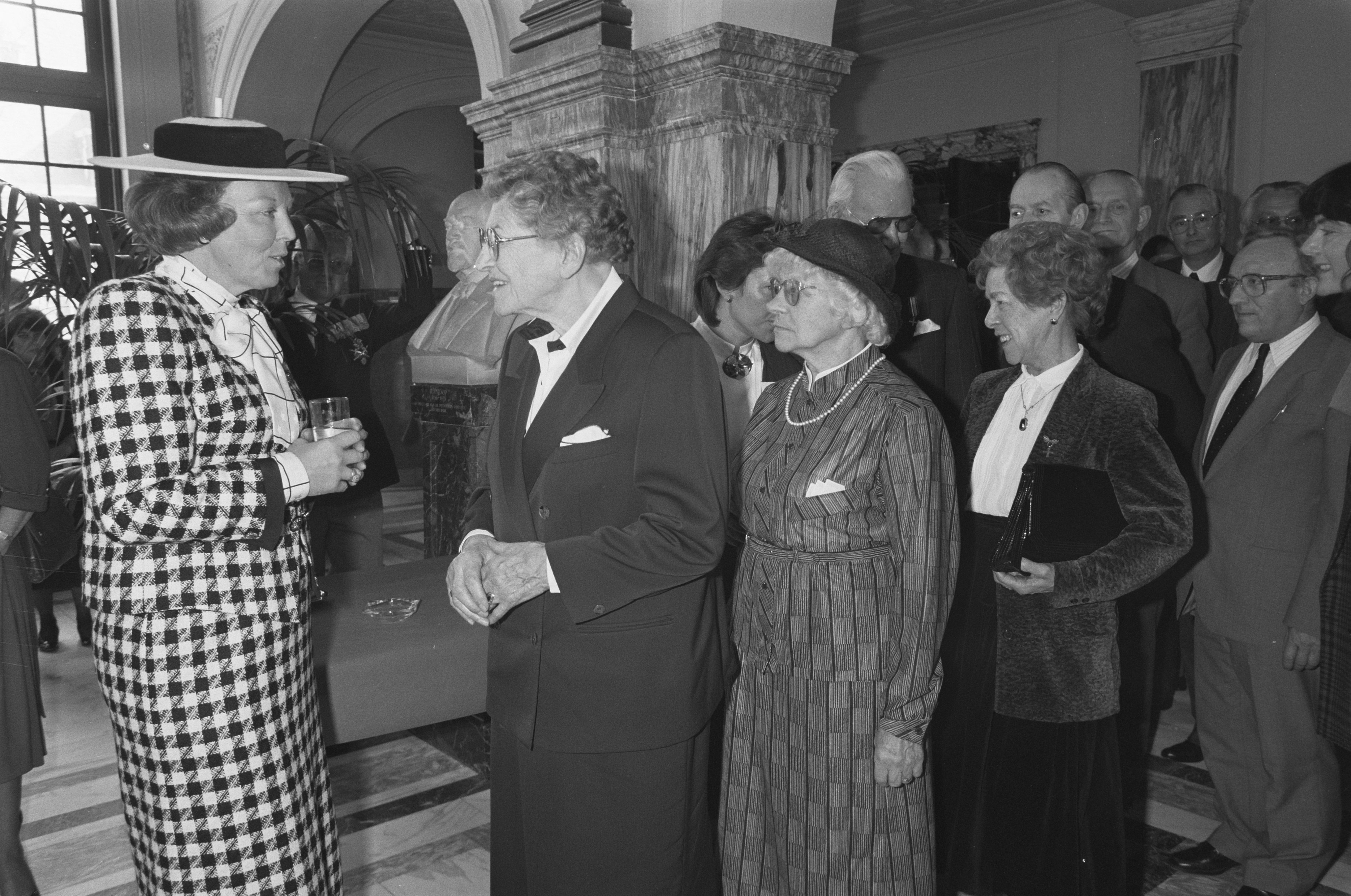 Queen Beatrix of the Netherlands (left) at the 25th Yad Vashem ceremony in the Netherlands